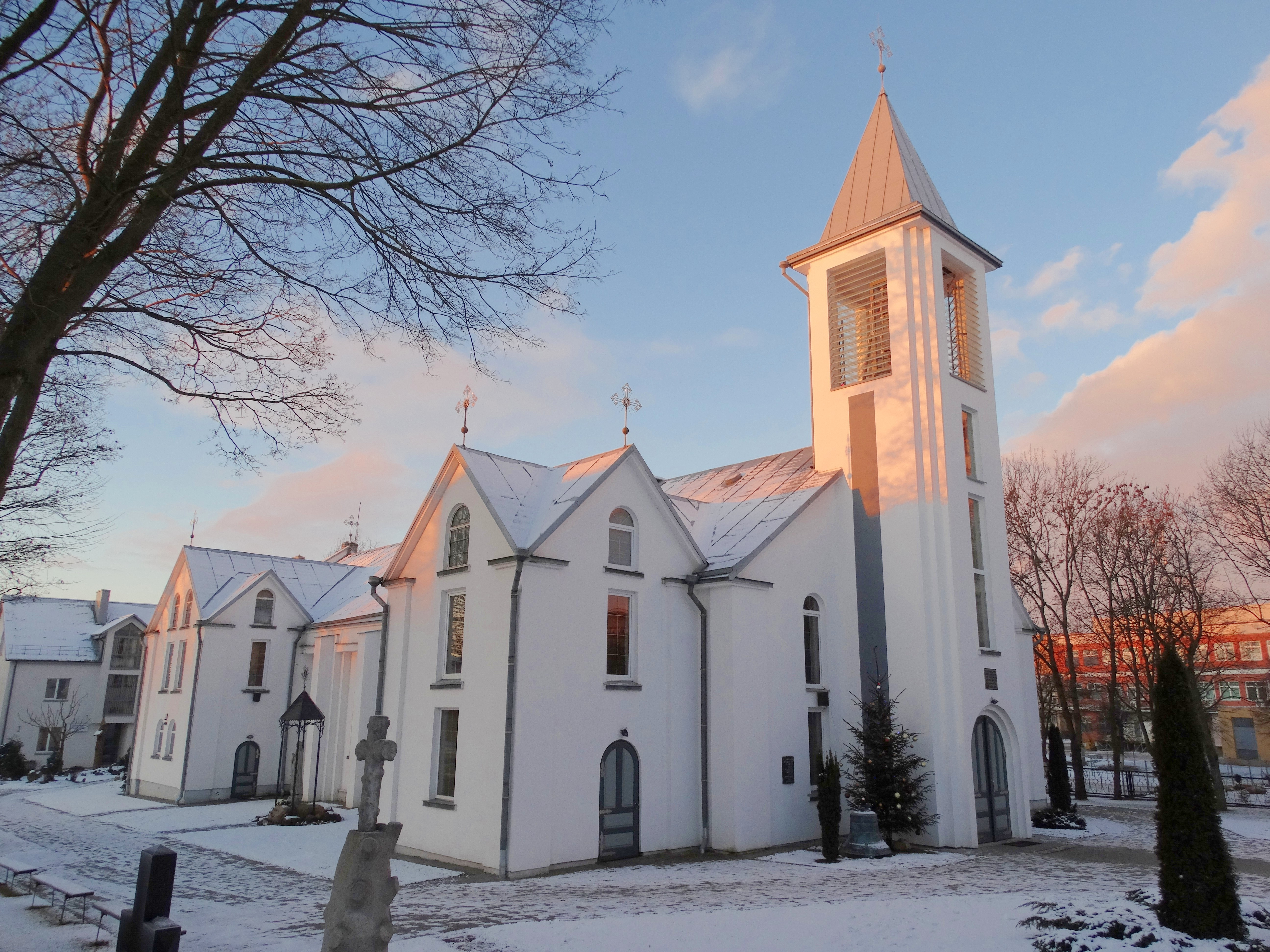 Church of the Birth of the Most Holy Virgin Mary, Radviliškis, Lithuania